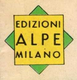 Logo of the now defunct Italian publishing house Edizioni Alpe as it appeared on the first issue of the comic book Le Avventure di Pugacioff